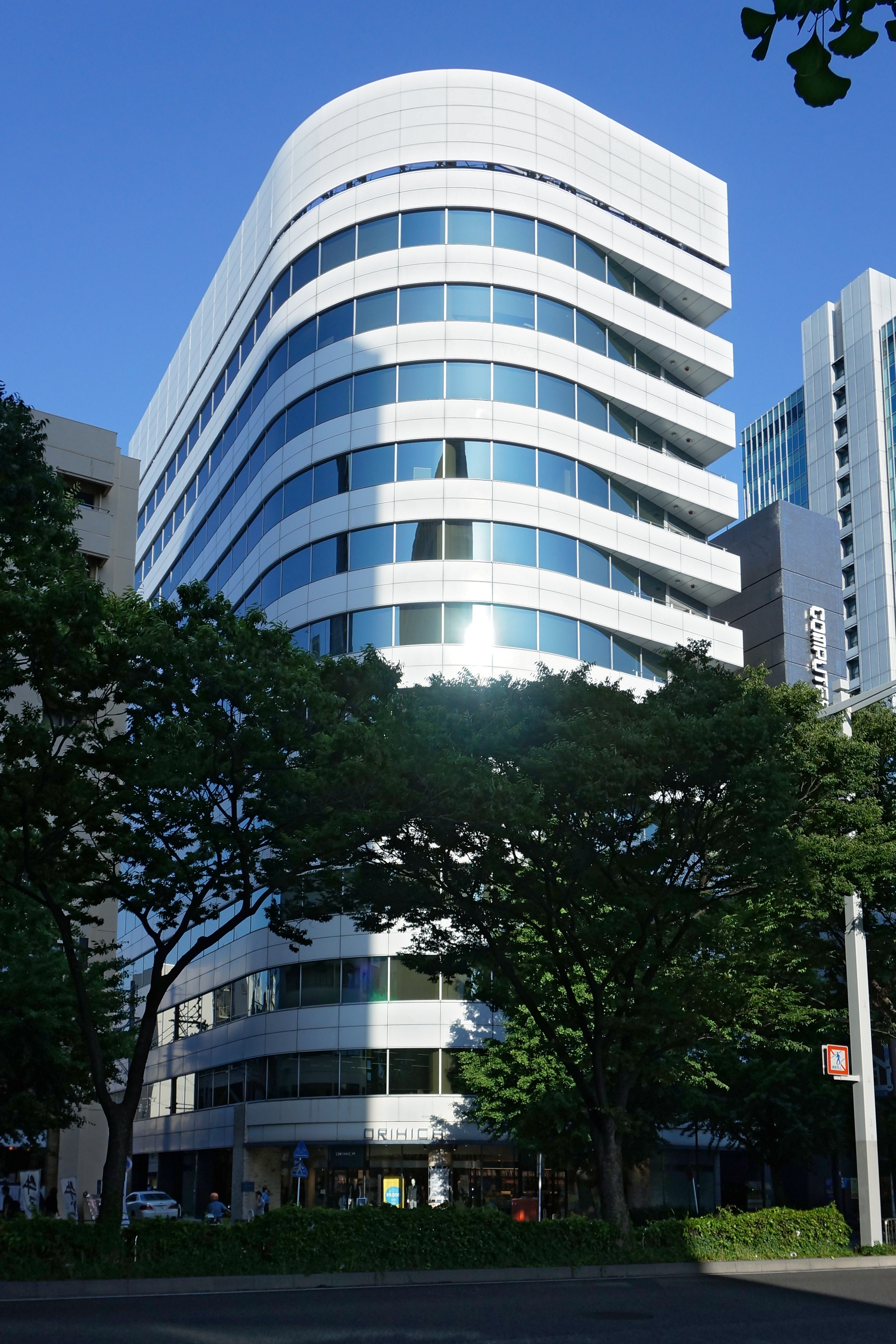 Daiwa Meieki Building in Nagoya, Aichi prefecture, Japan.